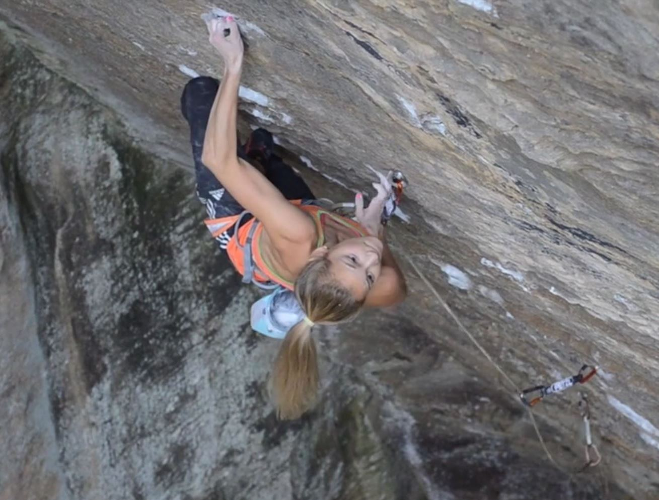 Sasha DiGiulian on Pure Imagination 5.14c route on the main Chocolate Factory wall in Red River Gorge of Kentucky